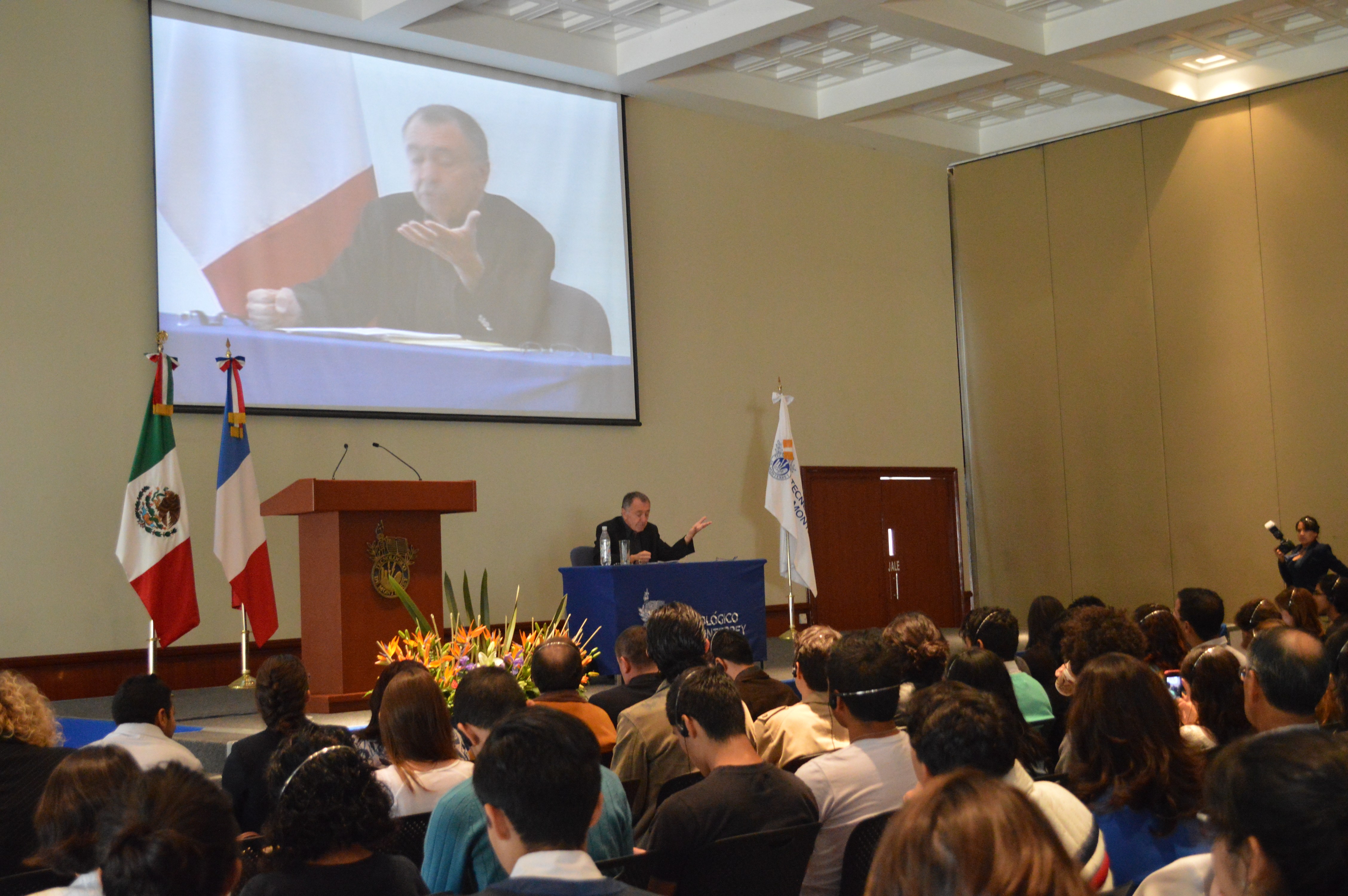 Gilles Lipovetsky presenting at the Tec de Monterrey (ITESM) Campus Ciudad de Mexico